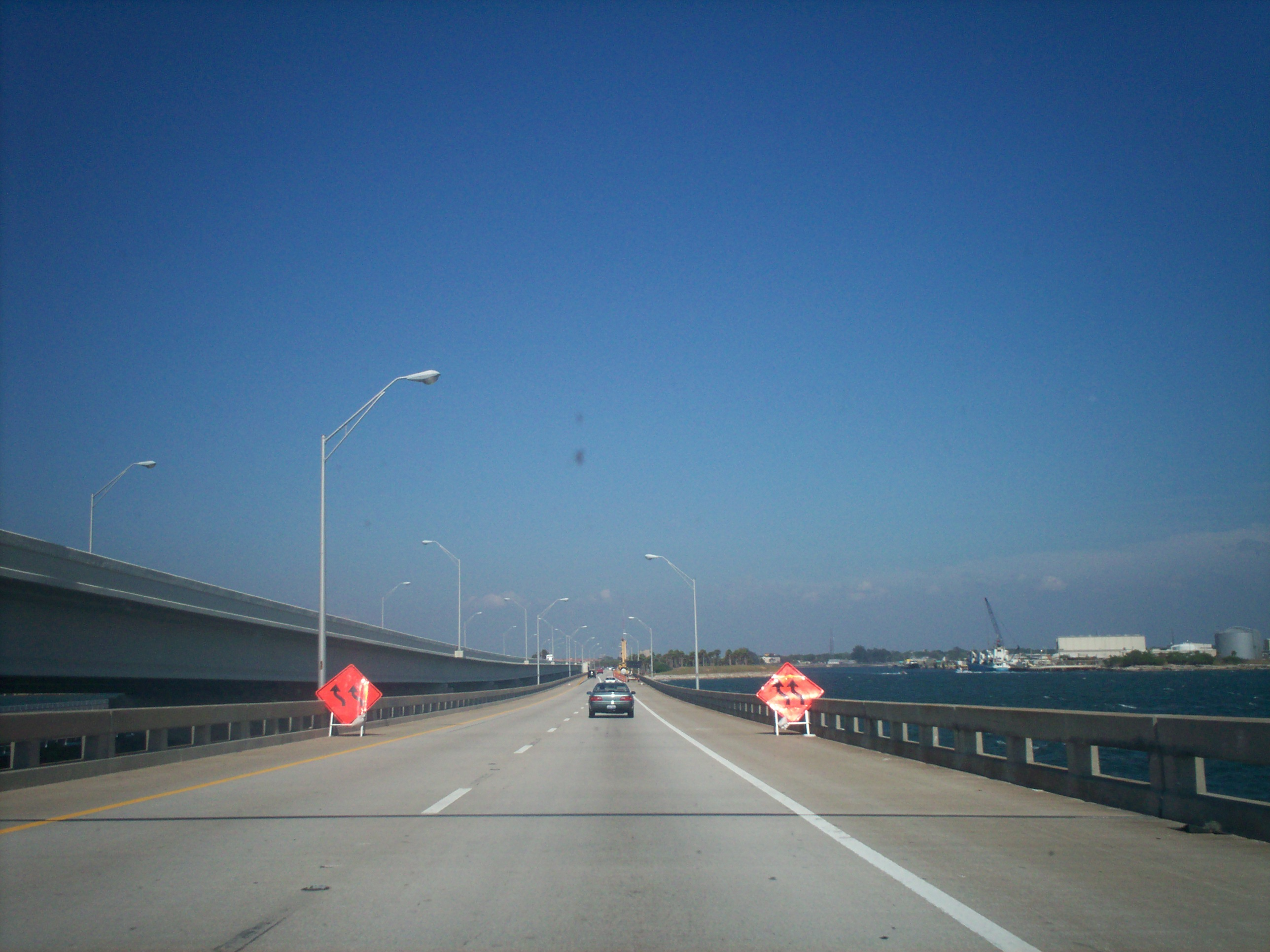 The Gandy Bridge in Florida, going eastbound towards Tampa. Note: The forthcoming construction work was the result of a barge that collided with the bridge in March, 2006.